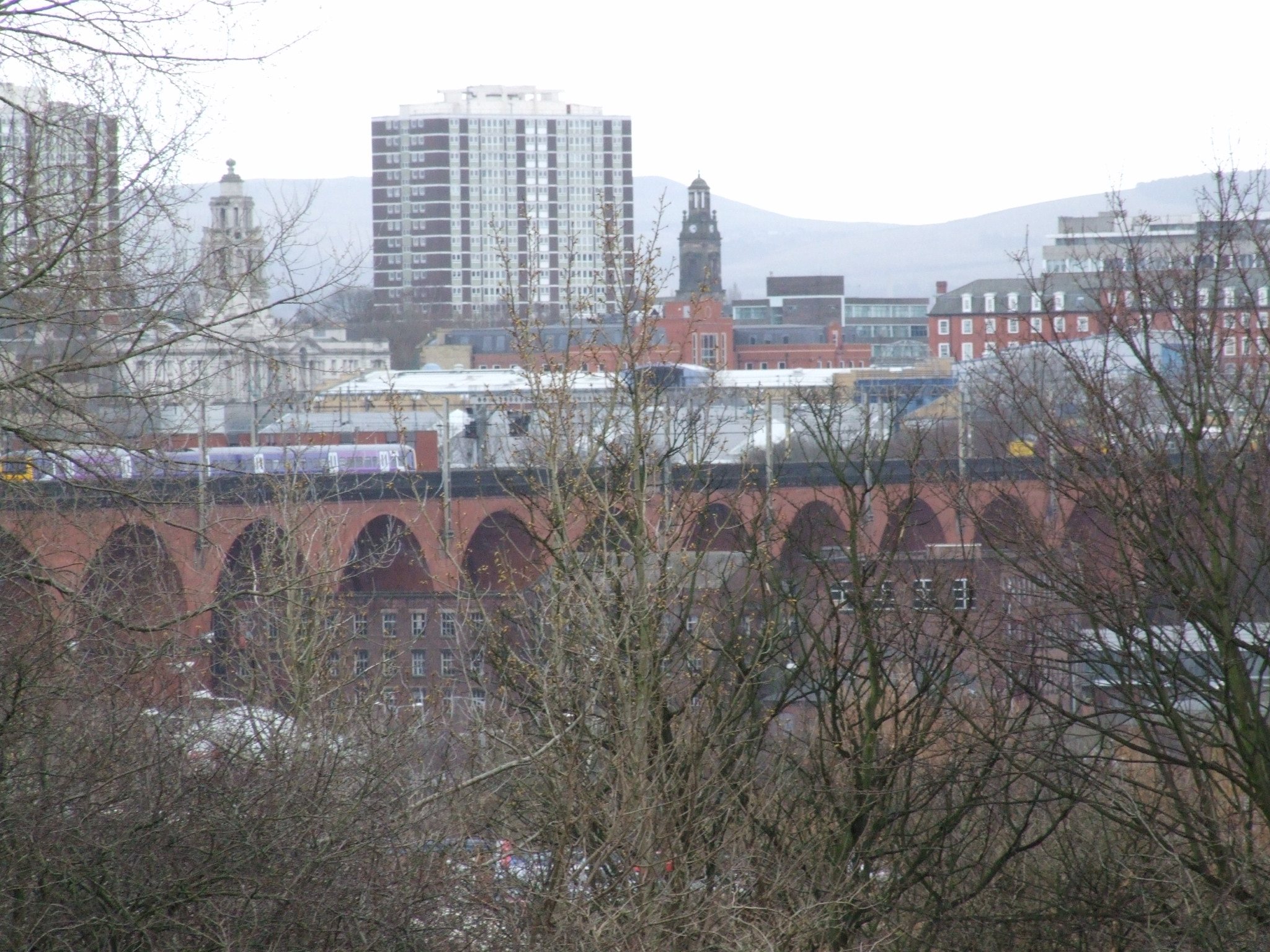 Heaton Norris is situated in Stockport, north of the River Mersey. It was a parish in the Salford hundred. The A626, A6 and A5145 pass through, as does the M60, and the Manchester/ London railway line that passes over the Stockport viaduct. Stockport Town Centre from Green Lane fields, Heaton Norris. Stockport viaduct crossing the Mersey valley. Three car EMU and two other engines.Town hall. Derbyshire hills. - Google Maps - Google Earth